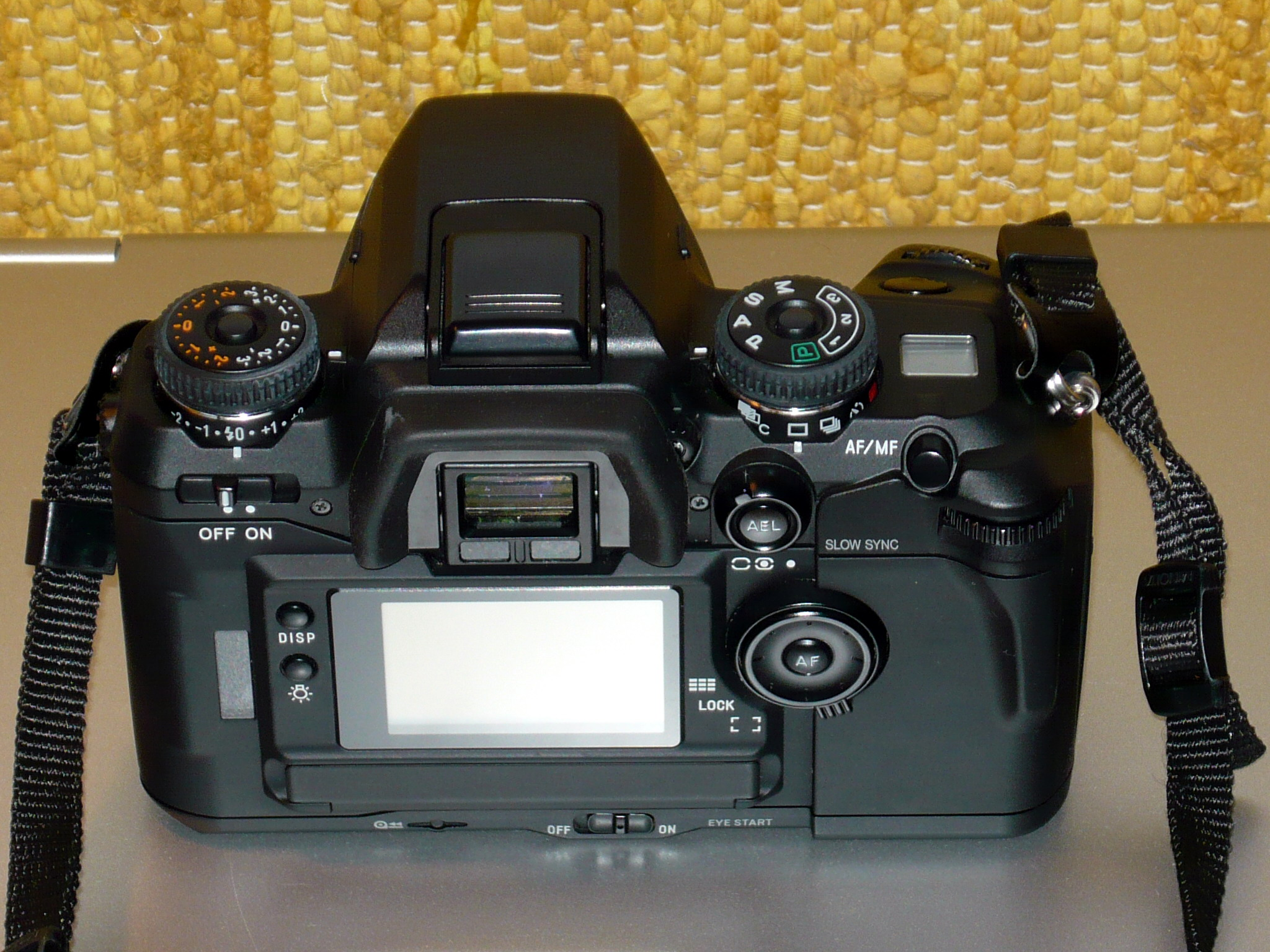 Minolta Dynax 7.